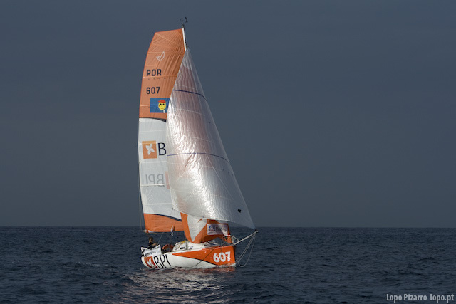 Picture of the skipper Francisco Lobato arriving to Funchal Madeira